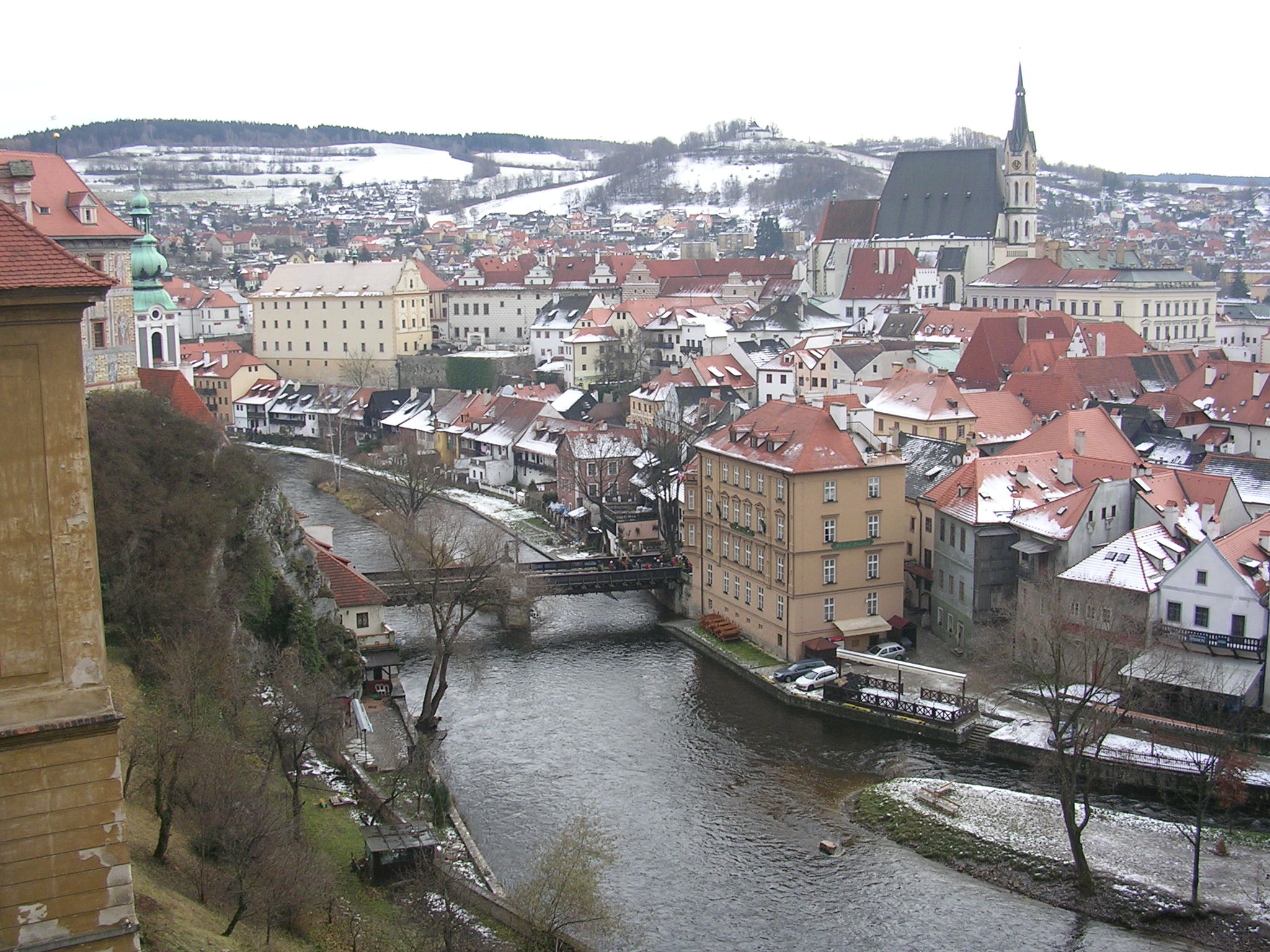 Český Krumlov, the Czech Republic.